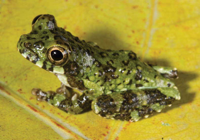 File:Osteocephalus cannatellai - ZooKeys-229-004-g007.xcf converted, cropped